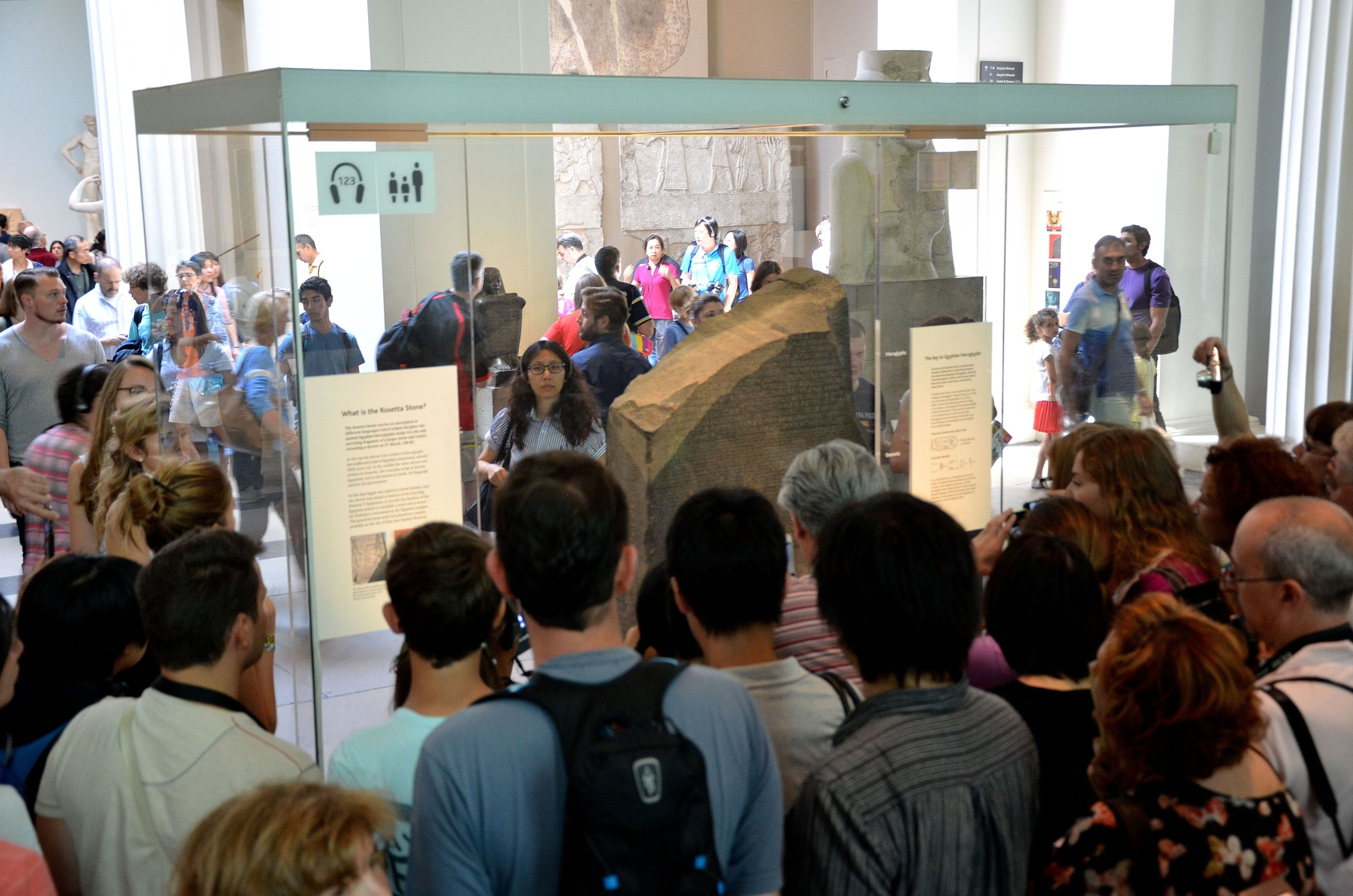 The Rosetta Stone in the British Museum in London